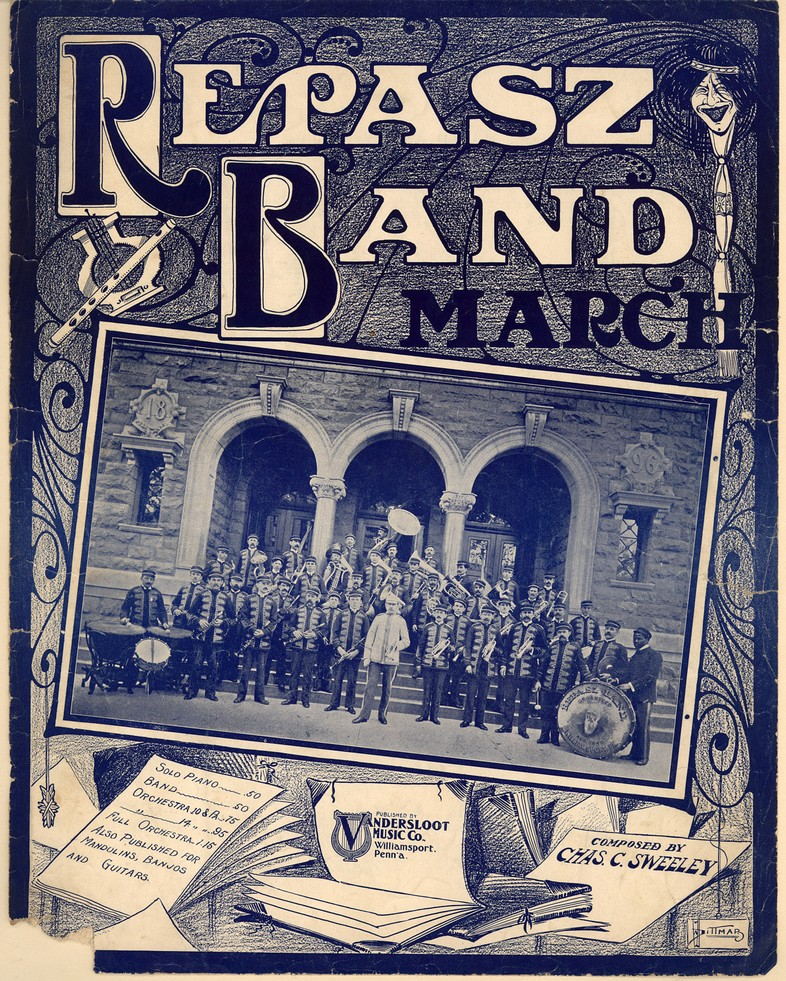 Sheet music cover to Repasz Band March